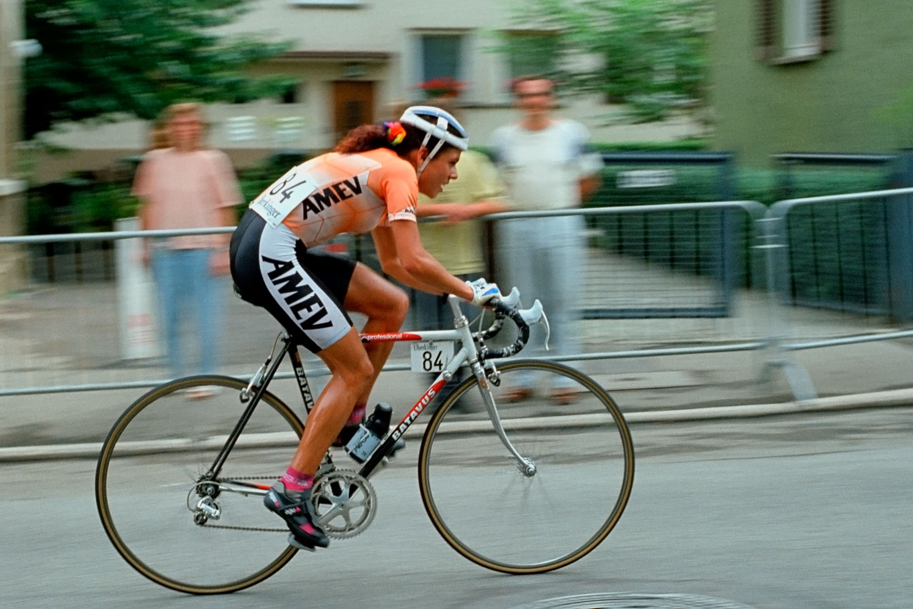 Leontien van Moorsel heads for a solo victory by almost 2 minutes in Stuttgart at the 1991 UCI Road World Championships. The Batavus frame and Campagnolo group set - with Delta brakes - were typical of the equipment used by the top riders in 1991. Scanned from a 35mm Agfa Ultra 50 negative - not the best for sports action shots!